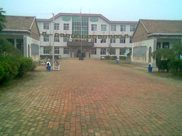 middle school